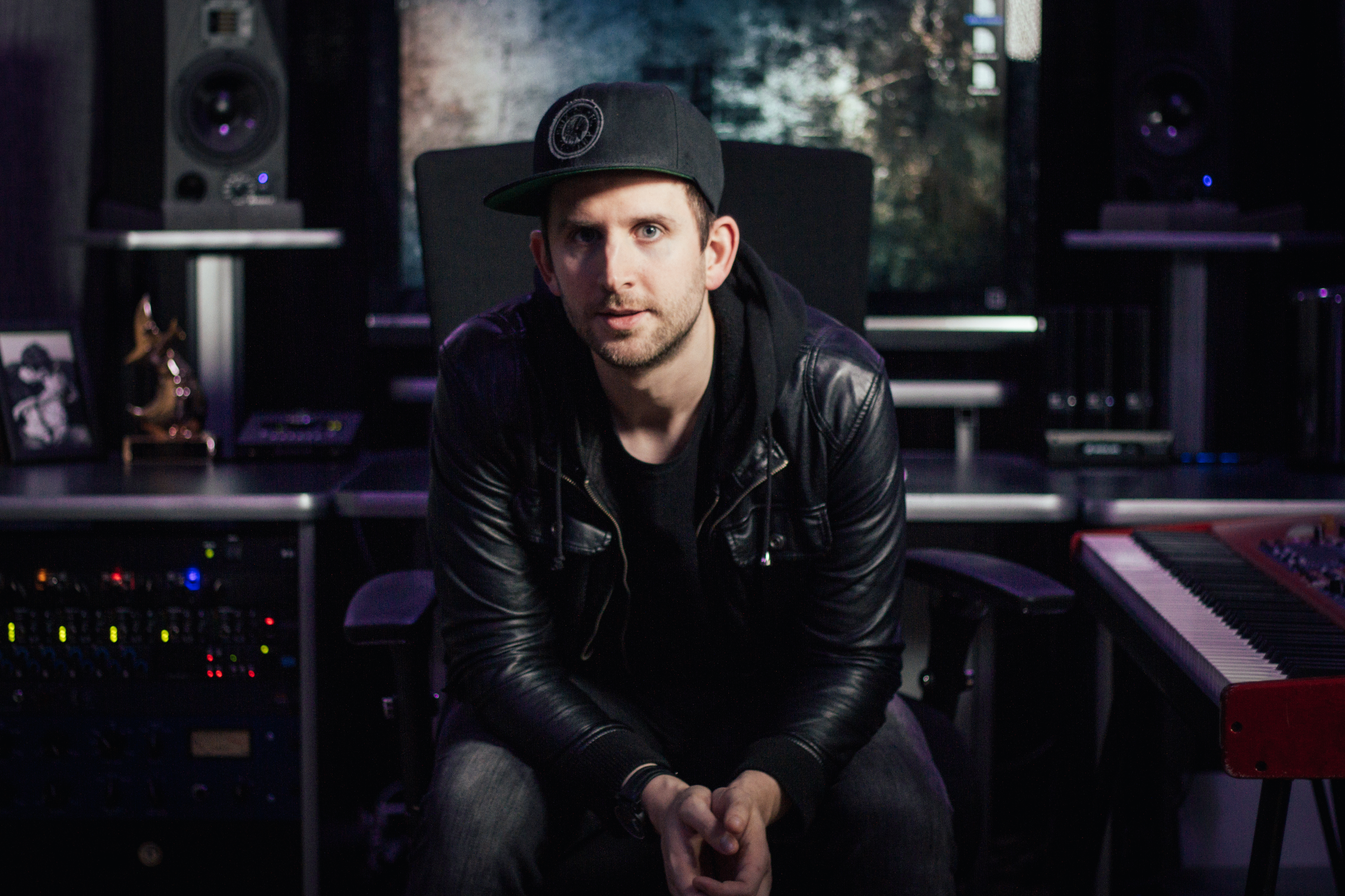 Photo taken by Jordan Merrigan in Tommee Profitt's home studio.